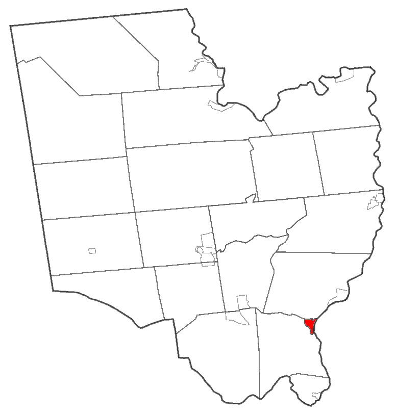 Map of Saratoga County highlighting Mechanicville